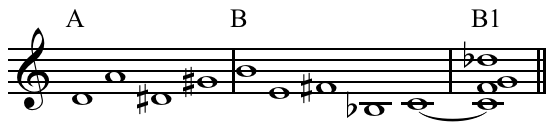 Pierre Boulez's Second Piano Sonata series. Created by Hyacinth (talk) 07:15, 7 December 2010 using Sibelius 5.